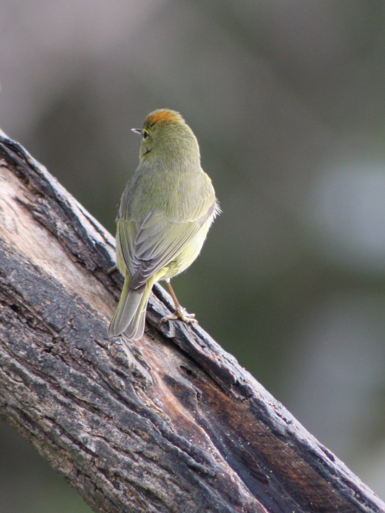 Orange crowned warbler (oreothylpis celata) at Quinta Mazatlan, McAllen TX